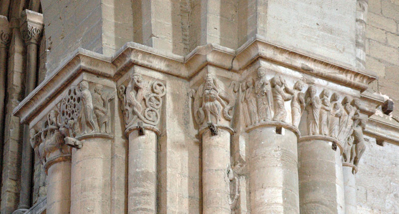 Capitals of Seu Vella of Lleida. Ramon de Bianya